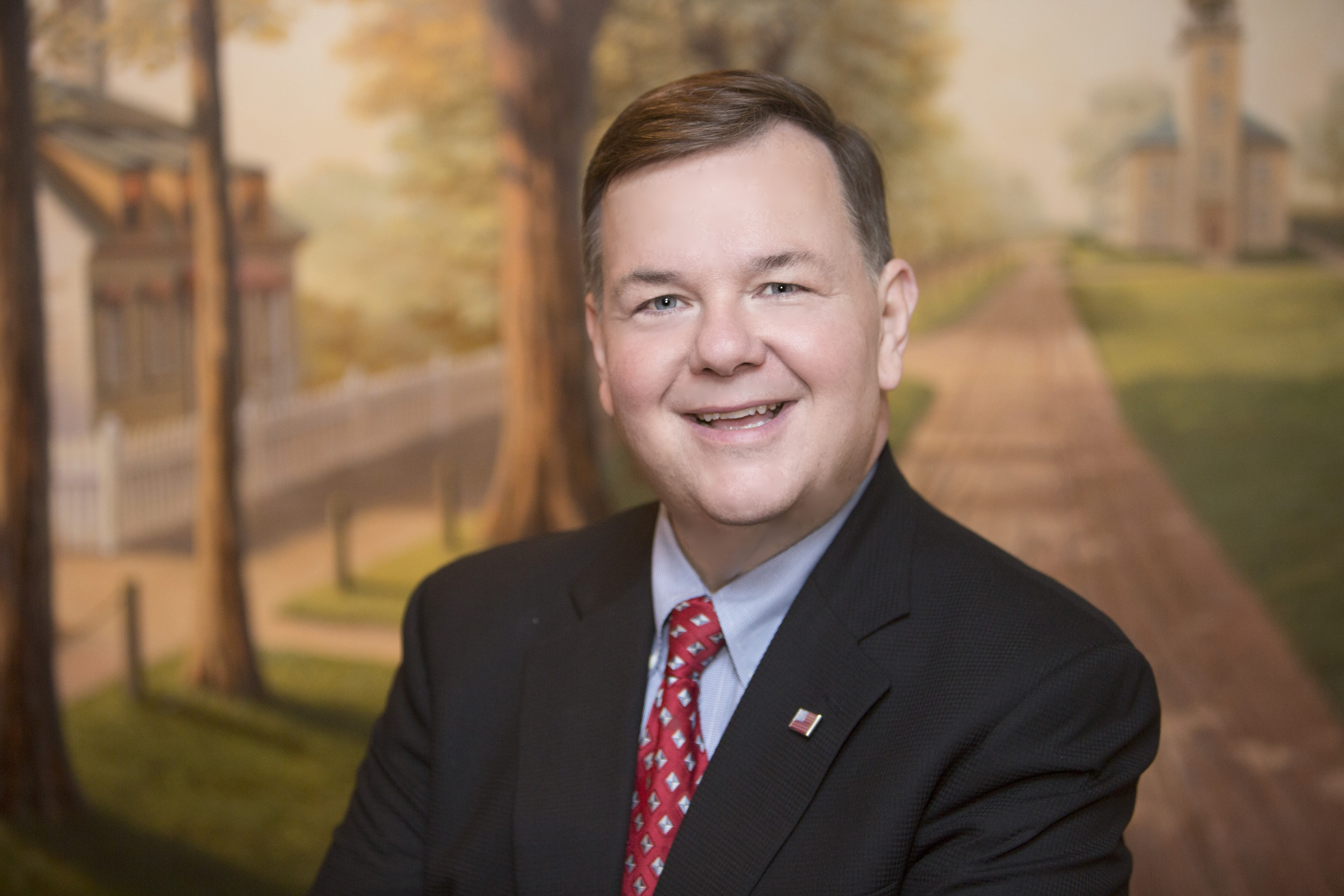 casual